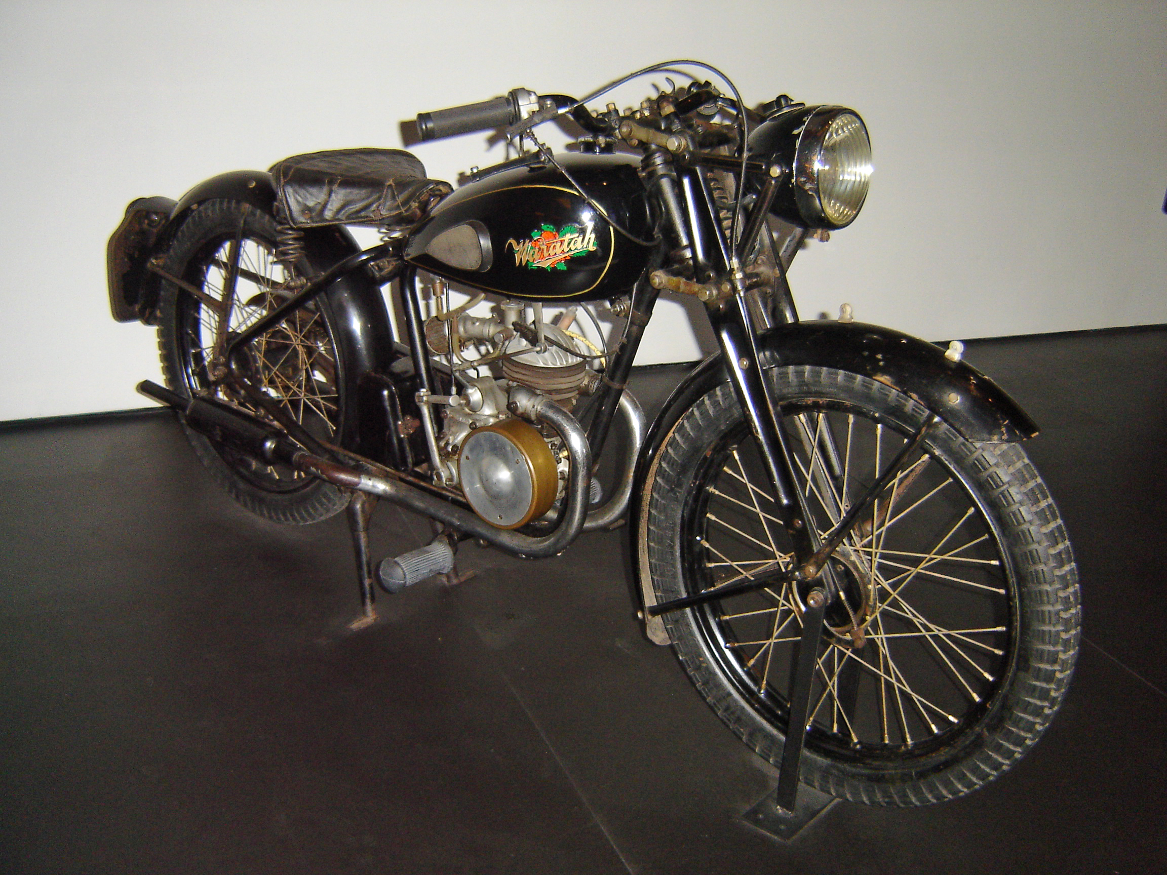 A 1948 Waratah motorcycle on display at the Powerhouse Museum.